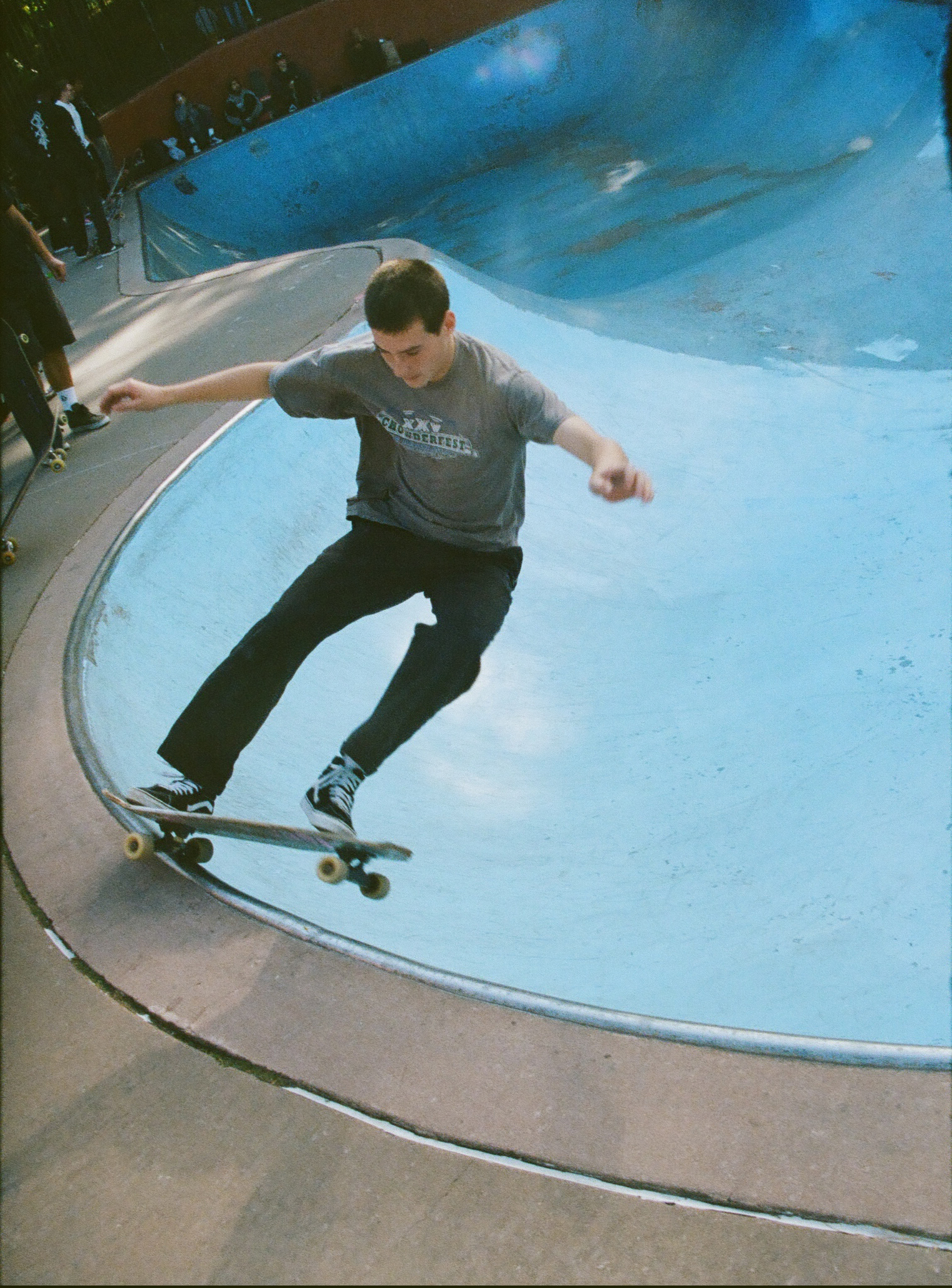 Nicholas Deconie frontside five-0 at Millennium Skate Park, Owl's Head Park - Bay Ridge, Brooklyn - October, 2019 during the NYC Skate Coalition's Pool Series event